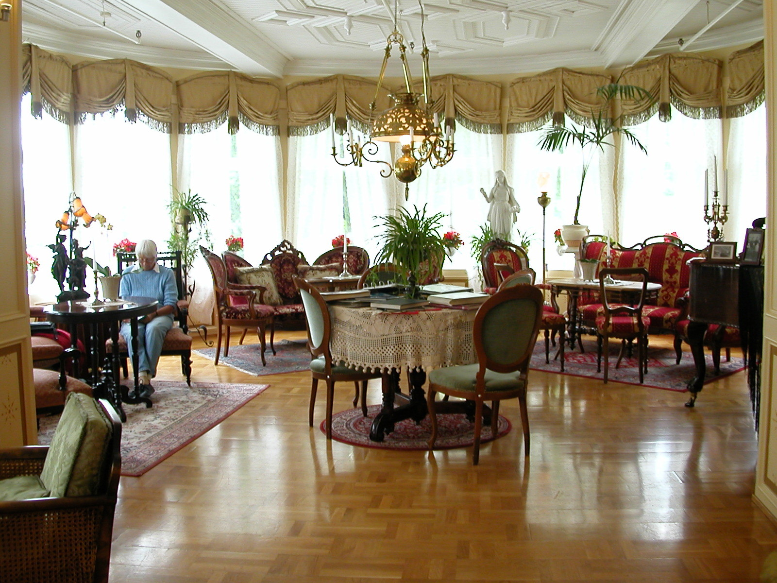 Sitting room at Hotel Union, Øye, Norway